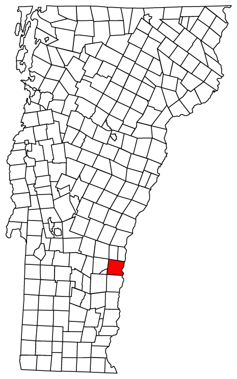 Description: Map of Vermont towns with Weathersfield highlighted Source: Map created by Jared C. Benedict on 26 March 2004. Copyright: © Jared C. Benedict.